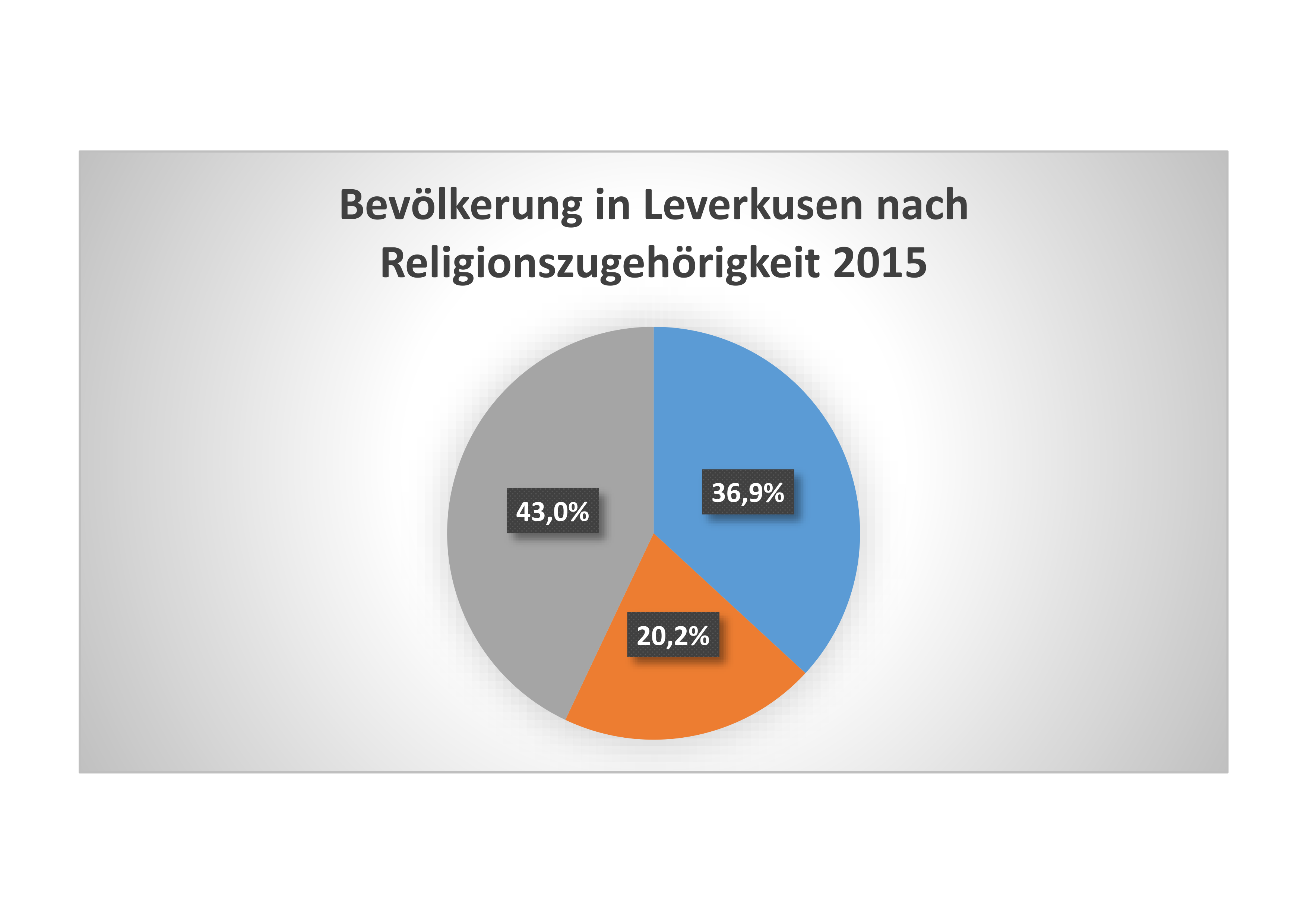 Denomination of the population of Leverkusen on the 31st of Dezember 2011 red: catholic blue: protestant grey: others or without